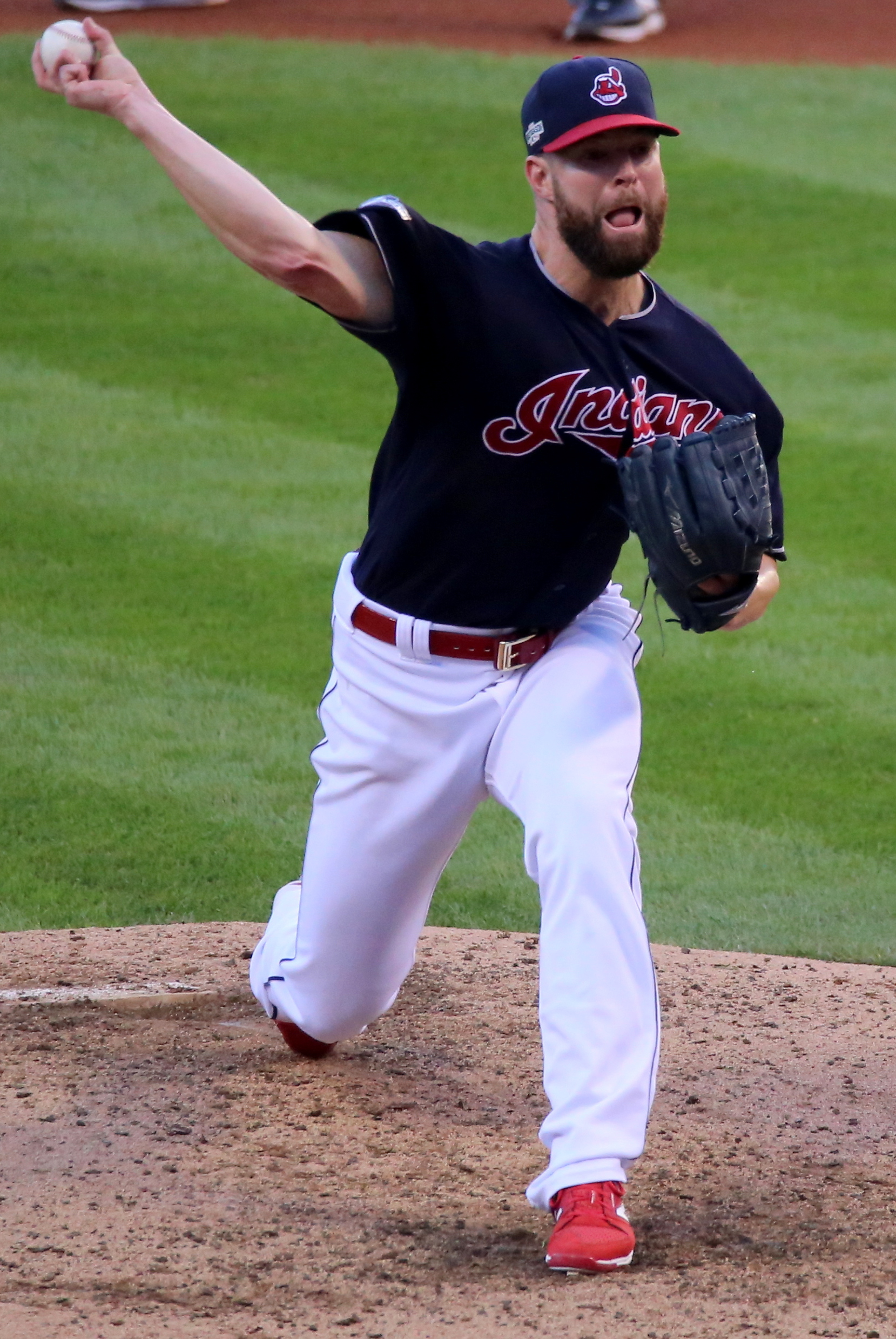 Indians starter Corey Kluber delivers a pitch in ALDS Game 2.